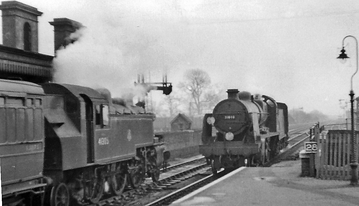 Stopping trains cross at Fareham, with contrasting locomotives. View SE from the Up platform, towards Portsmouth etc. sharply round to the left, the Gosport branch being straight ahead (closed to passengers 8/6/53, completely 6/10/69); behind the camera the lines went to Southampton via Netley, to Eastleigh, also to Alton (closed this day). The Portsmouth - Southampton train arriving has Maunsell U class 2-6-0 No. 31808 (built 11/26 as 'River' class 2-6-4T No. A808 'River Char', rebuilt as a 2-6-0 7/28, withdrawn 1/64). The Southampton - Portsmouth train on the left has LMS-type Ivatt 2MT class 2-6-2T No. 41305 (built Crewe 5/52 - for the SR, withdrawn 5/65).